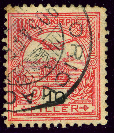 Kingdom of Hungary 10 filler issue 1904 stamp, cancelled ORIOVAC, Slavonia Military Frontier, Croatia